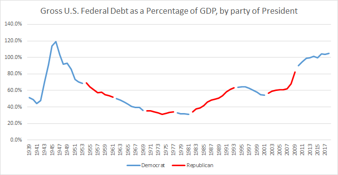 Gross US Federal Debt as a Percentage of GDP, by political party of President, from 1939-2018